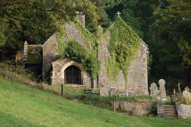 Llandyfeisant Parish Church Just a short walk from Llandeilo town via a path through the woods one unexpectedly comes across this church. The nearest houses are in Llandeilo, so why was the church built here? For more information go to